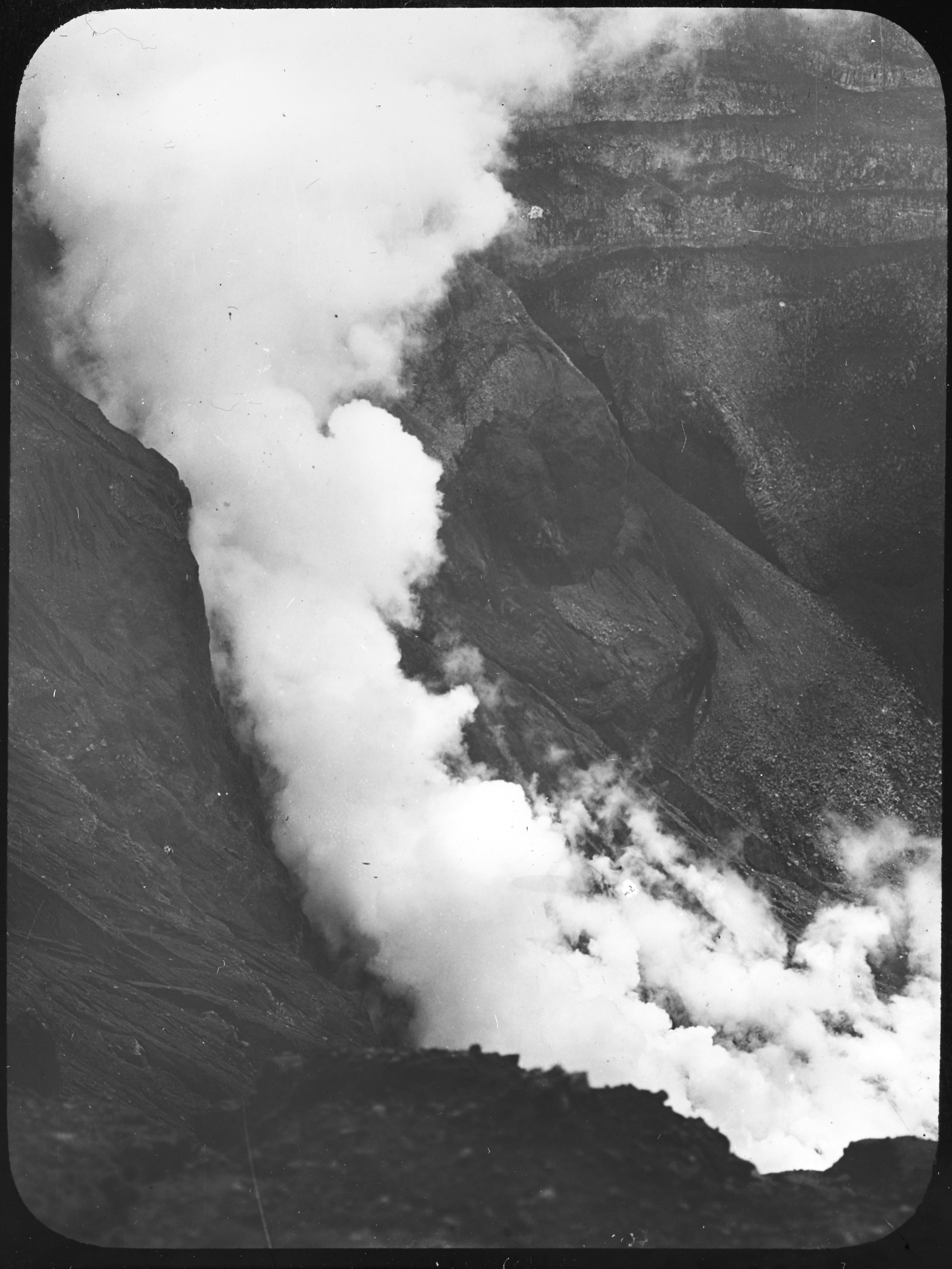 Column of steam rising from rocks.